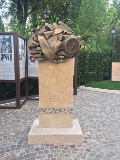 This is a photograph of the monument to Giovanni Falcone in Peschiera del Garda